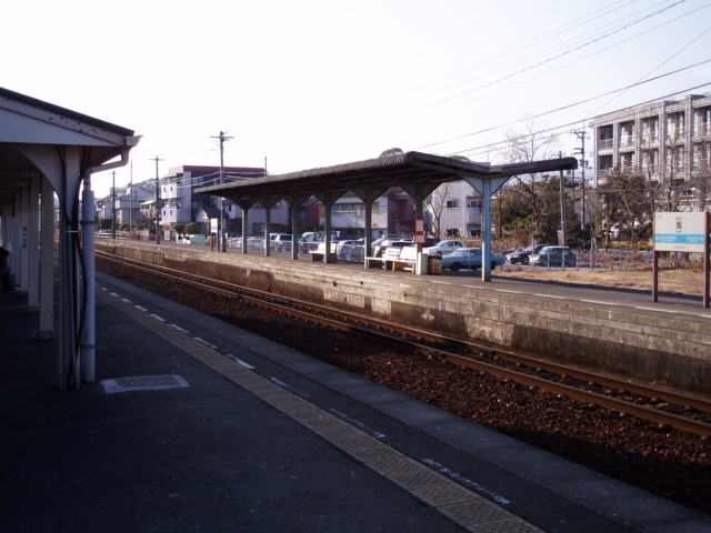 Shikoku Railway Dosan Line Asahi Station Building